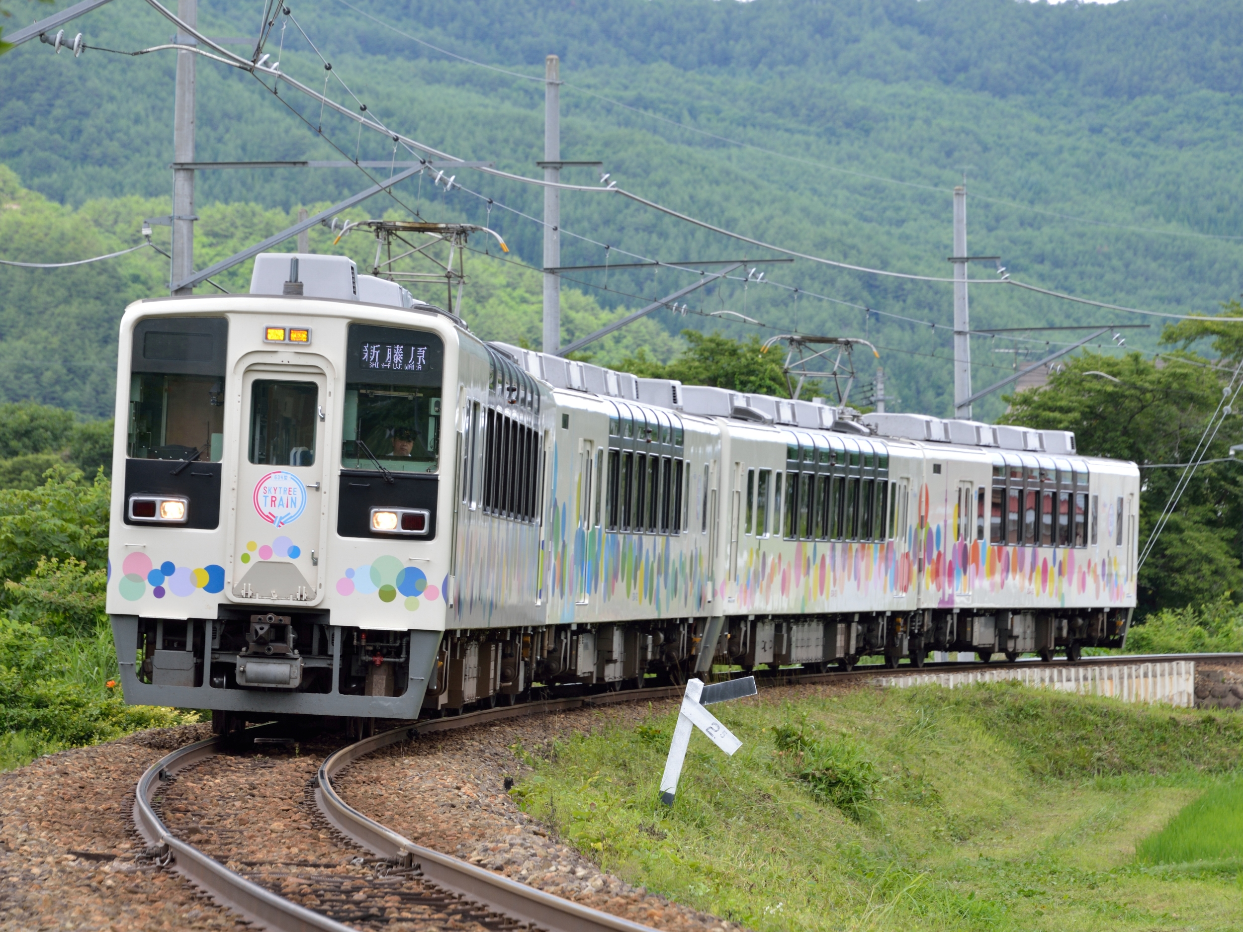 The two Tobu 634 series EMU sets on a special Skytree Train Minami Aizu service on the Aizu Railway